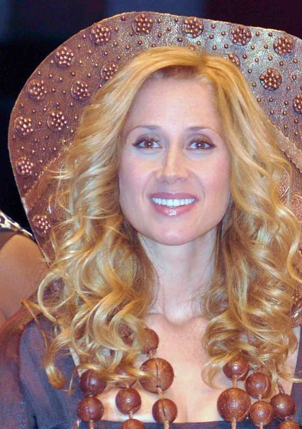 Lara Fabian, belgian singer at the opening night of Salon Du Chocolat's 15th Anniversary